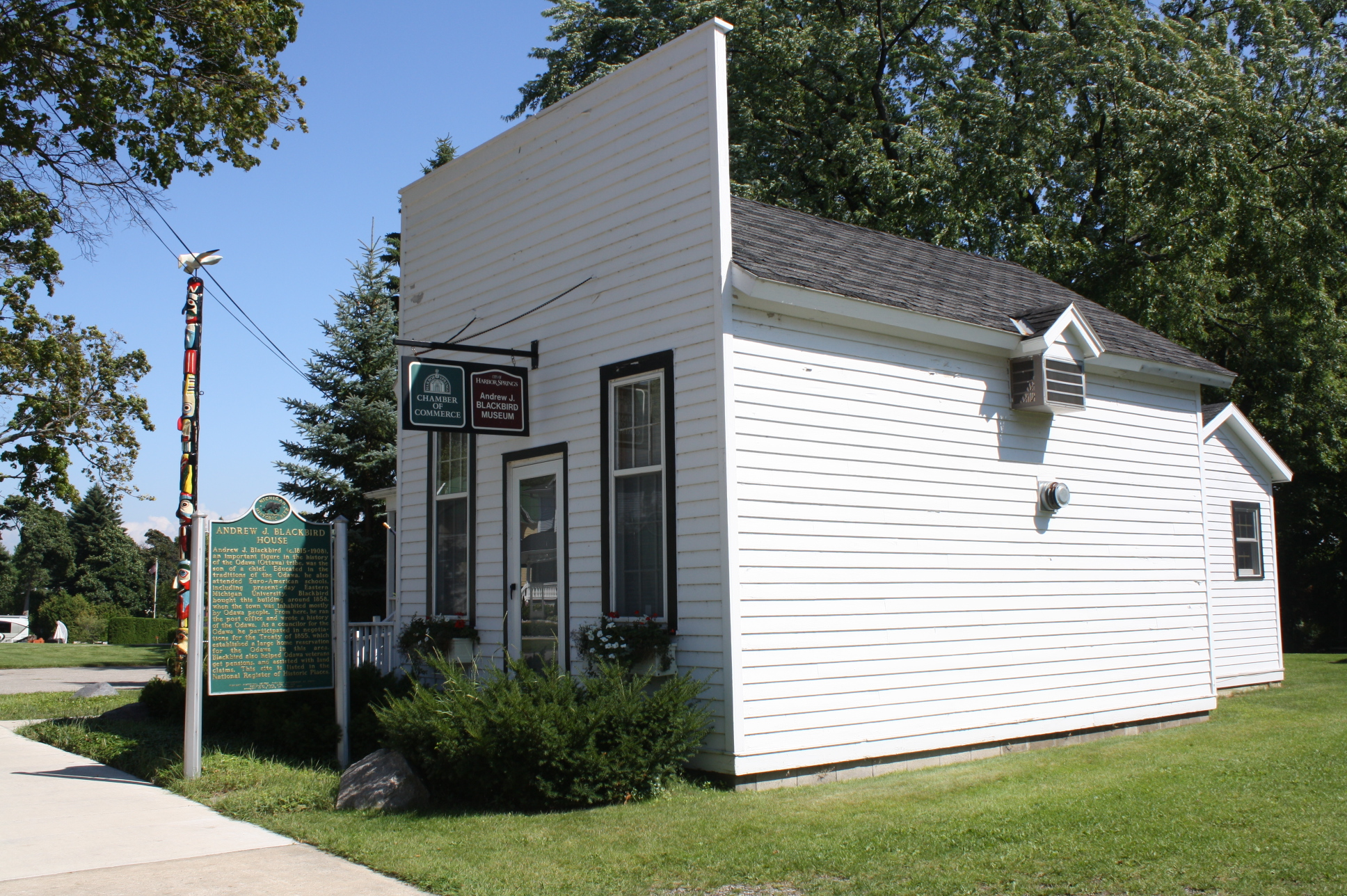 The Chief Andrew J. Blackbird House in Harbor Springs, Michigan. It is listed on the National Register of Historic Places.